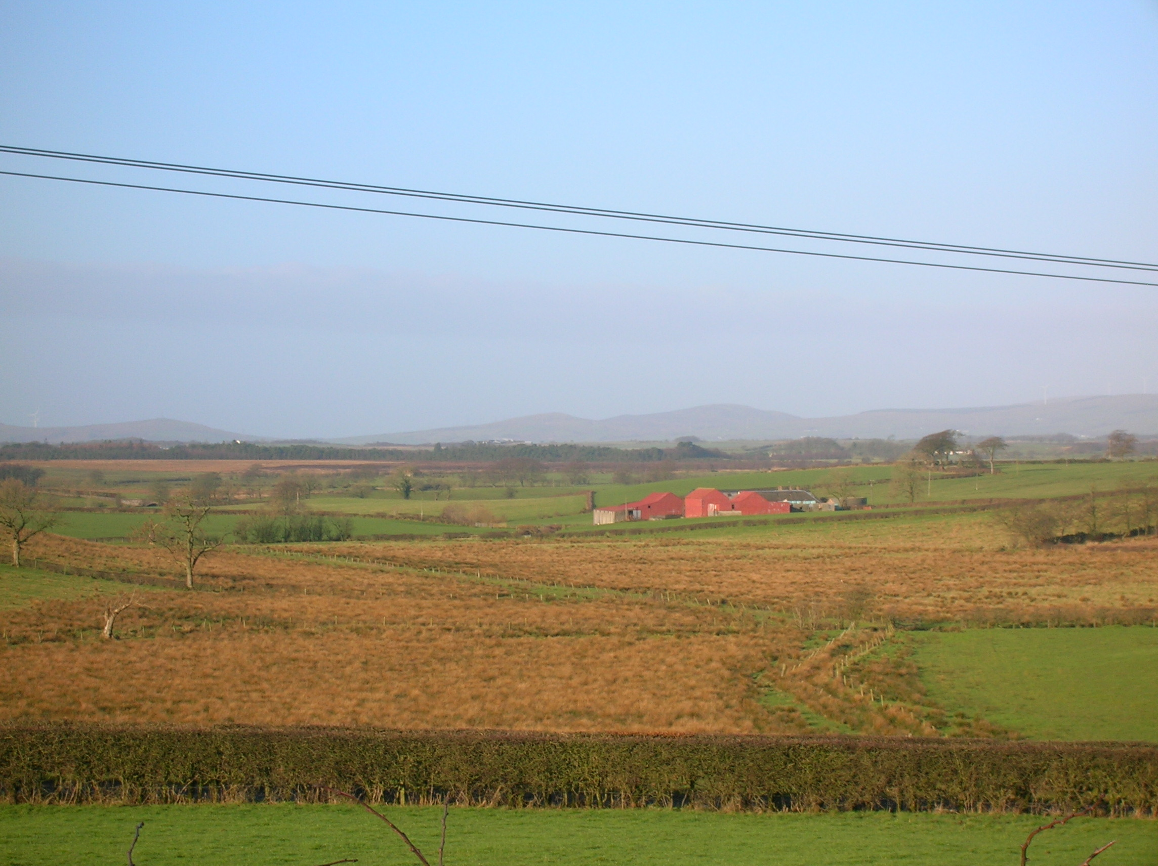 A view from the road across Canaan Park to Bickethall farm in East Ayrshire.2007.